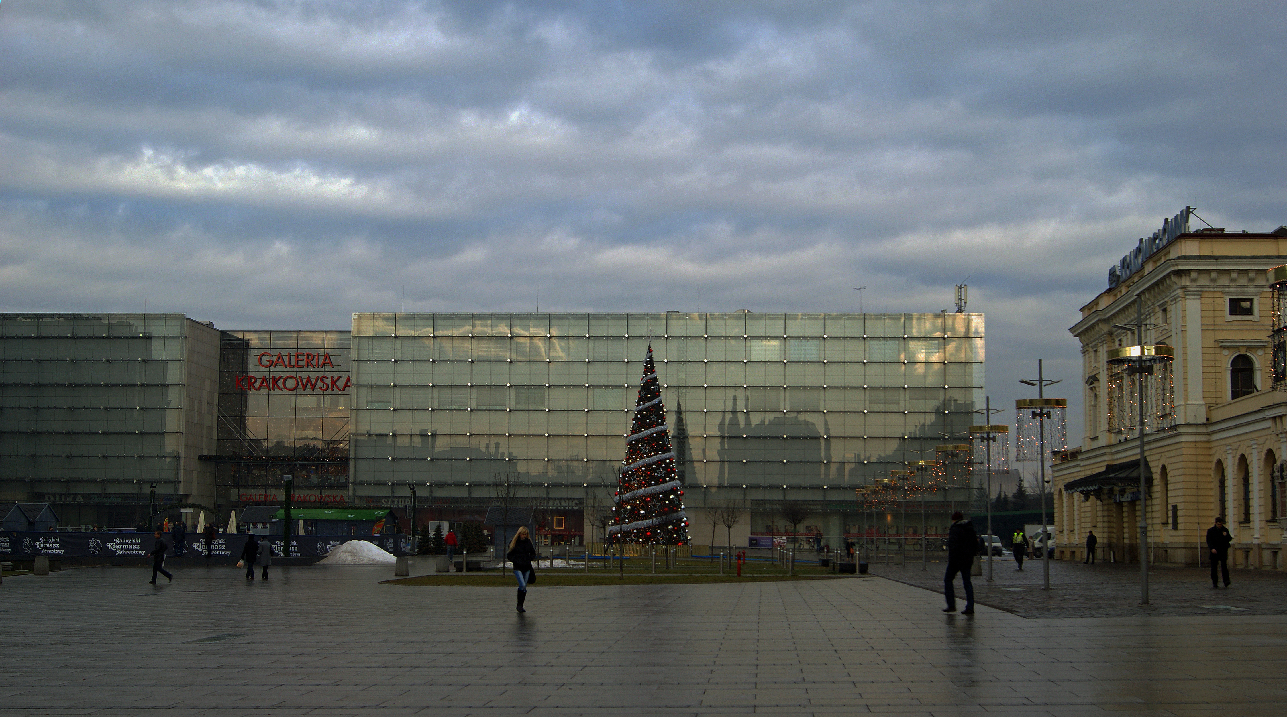 Krakow Shopping mall (view from S), Pawia street, Krakow, Poland